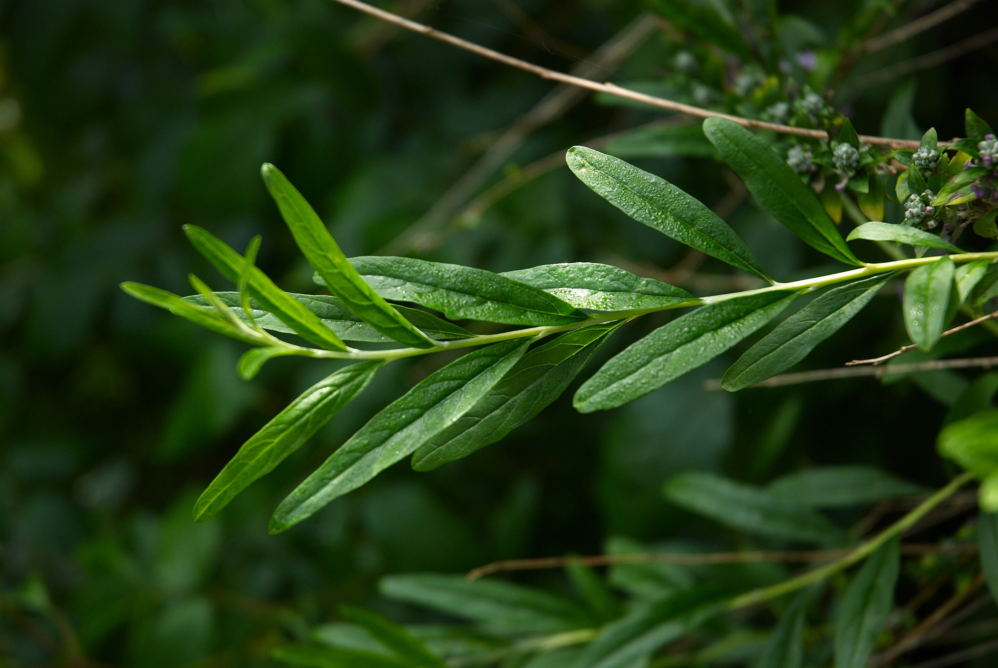 Fountain butterflybush